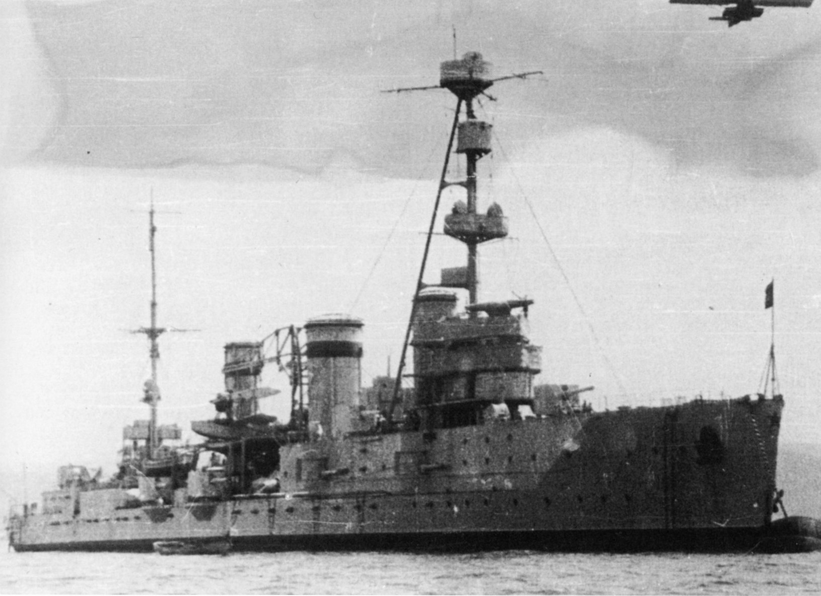 Soviet light cruiser Chervona Ukraina, 1935 (visible KR-1 /Heinkel HD.55 flying boat onboard, and lack of bow AA-gun.